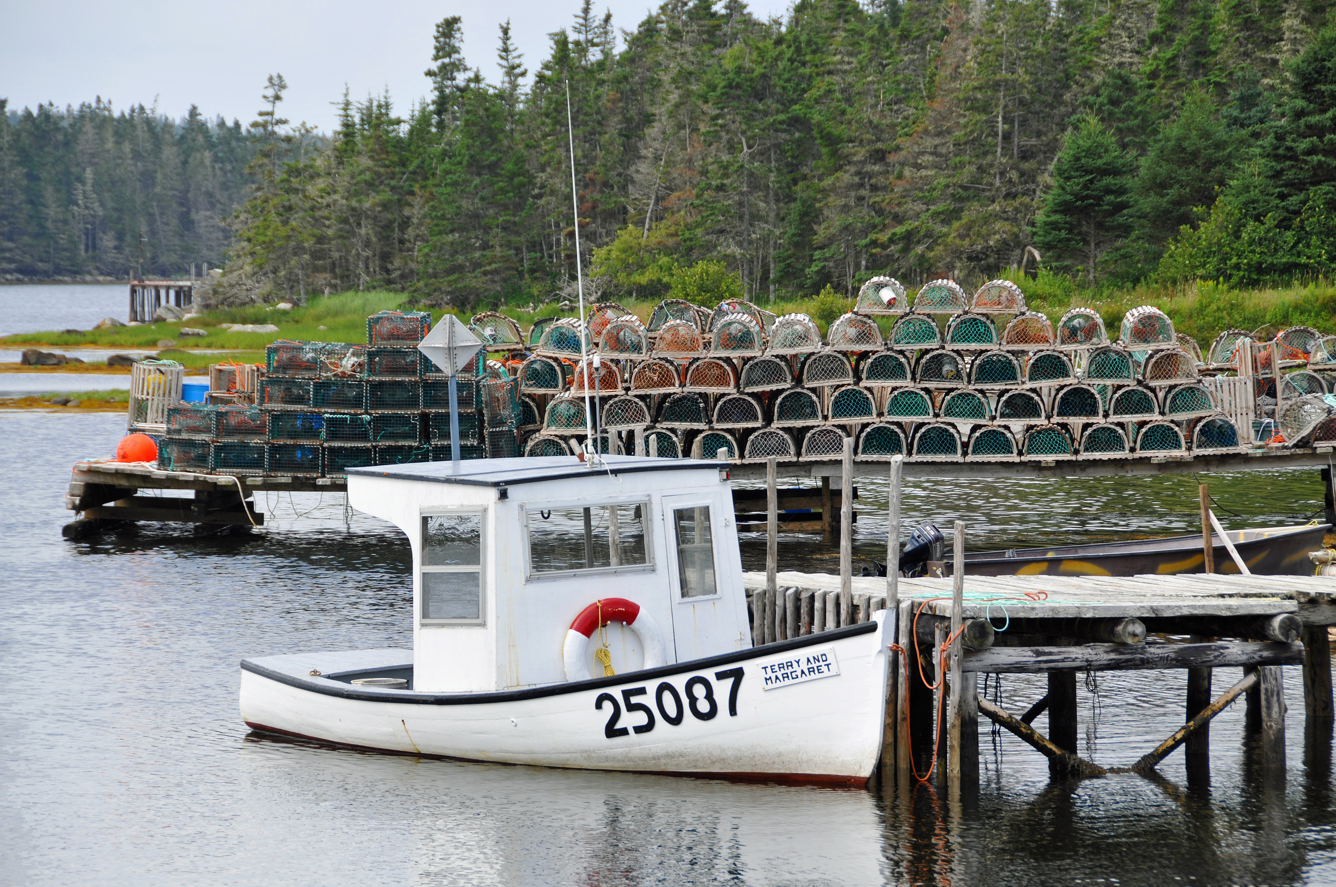 PLEASE, no multi invitations in your comments. DO NOT FEEL YOU HAVE TO COMMENT.Thanks. While looking for the Sheet Harbour Passage Front Range Light I came across this fishing boat, the Terry & Margaret.